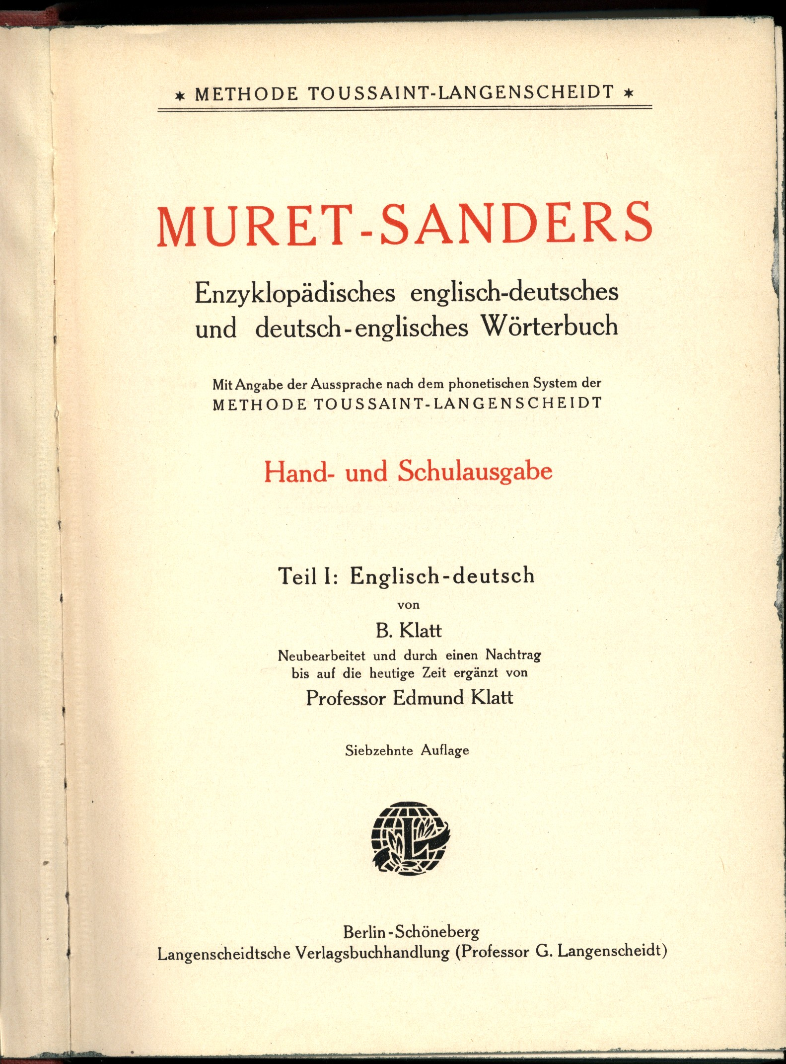 Complete Titel of Dictionary Muret-Sanders, Edition 1910